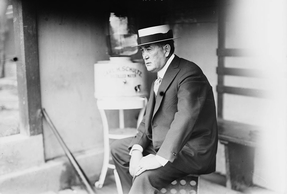 Hank O'Day as major league manager, 1914